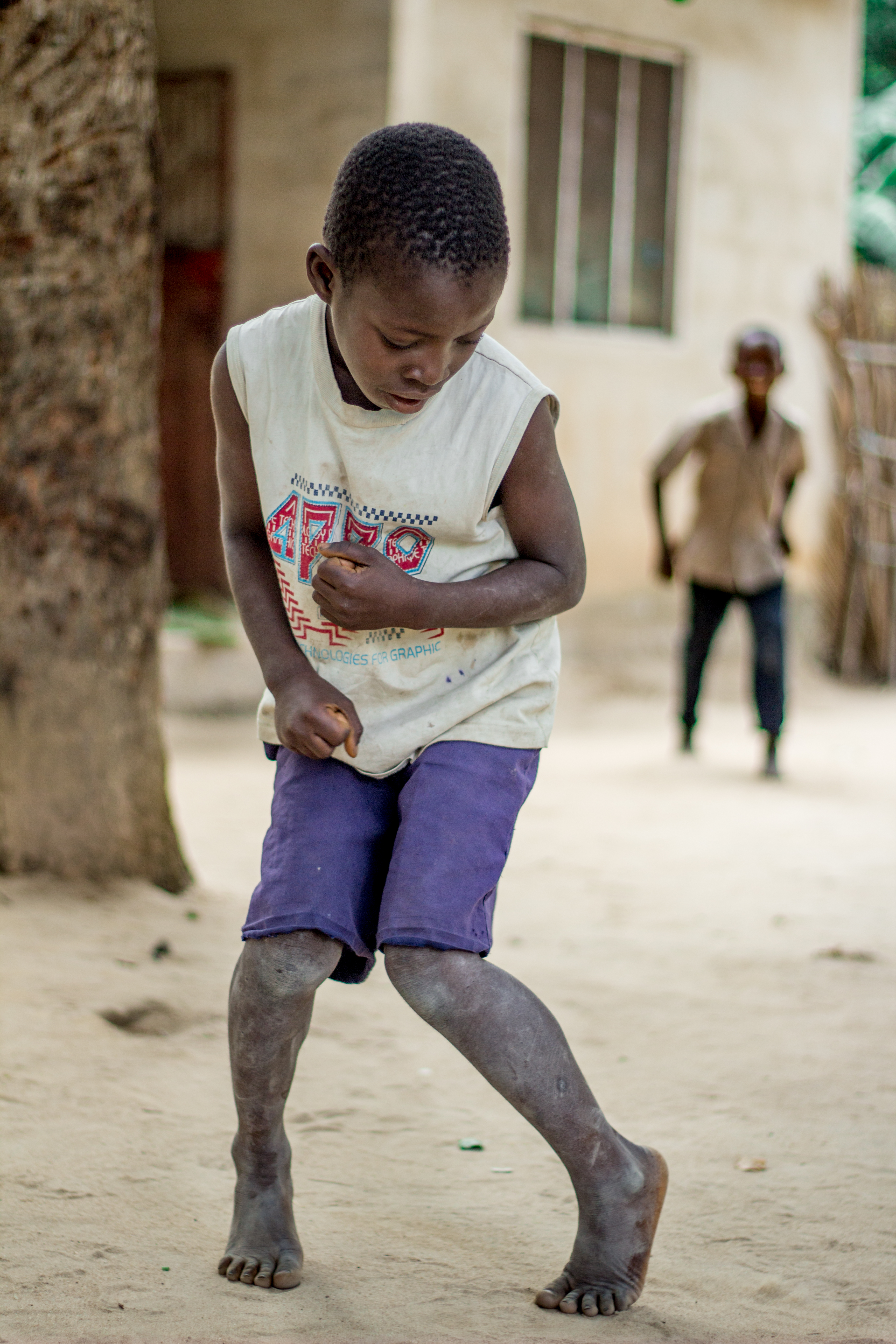 The Kiduku is one of the most popular forms of dance in Tanzania, popular and performed by people of all ages and most popular with children